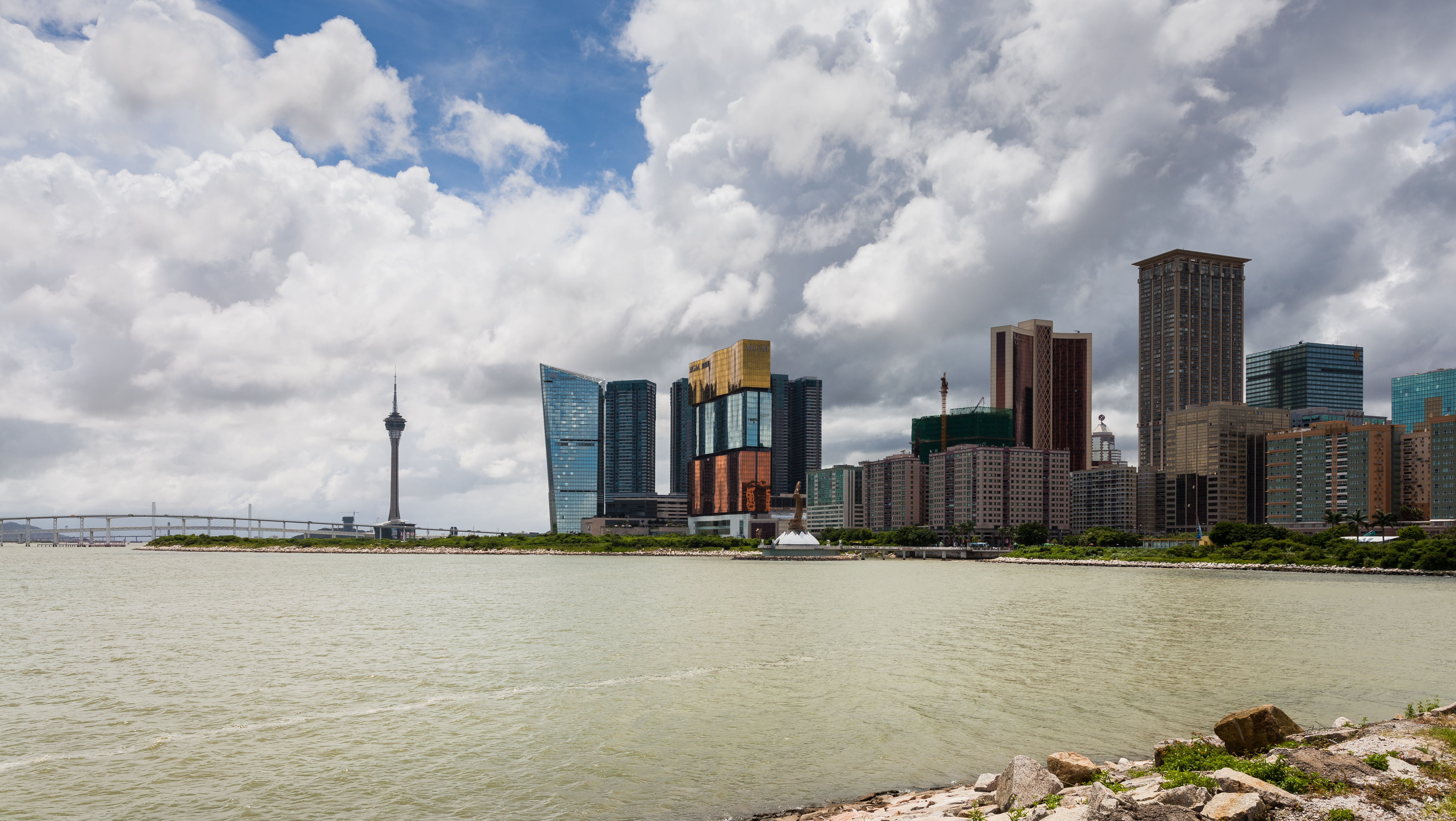 View of the casinos from Science Center, Macau